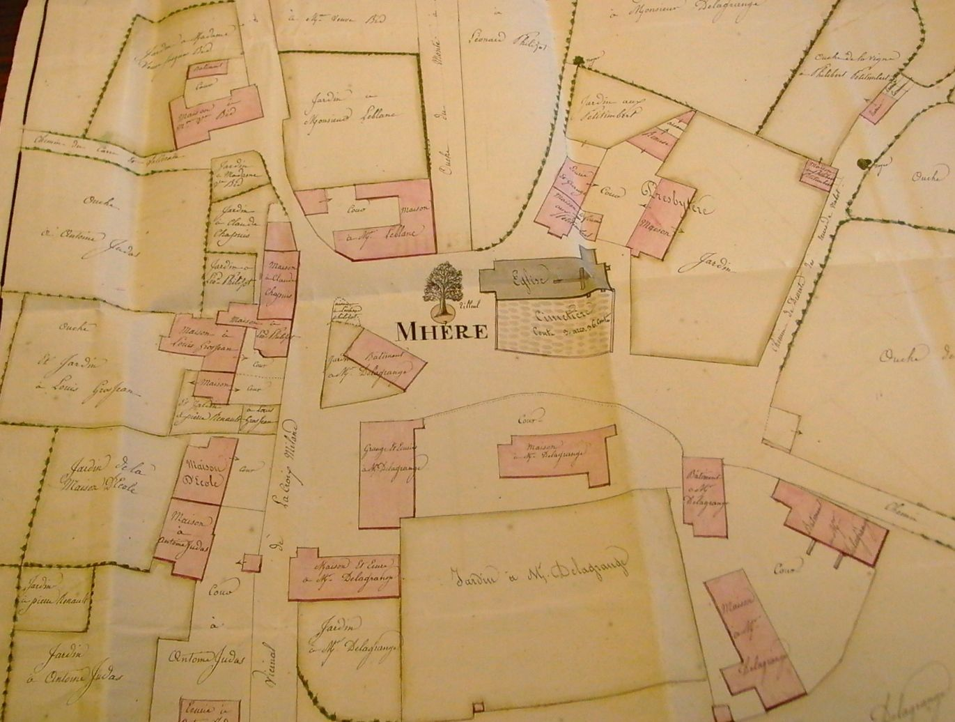 Map 1820